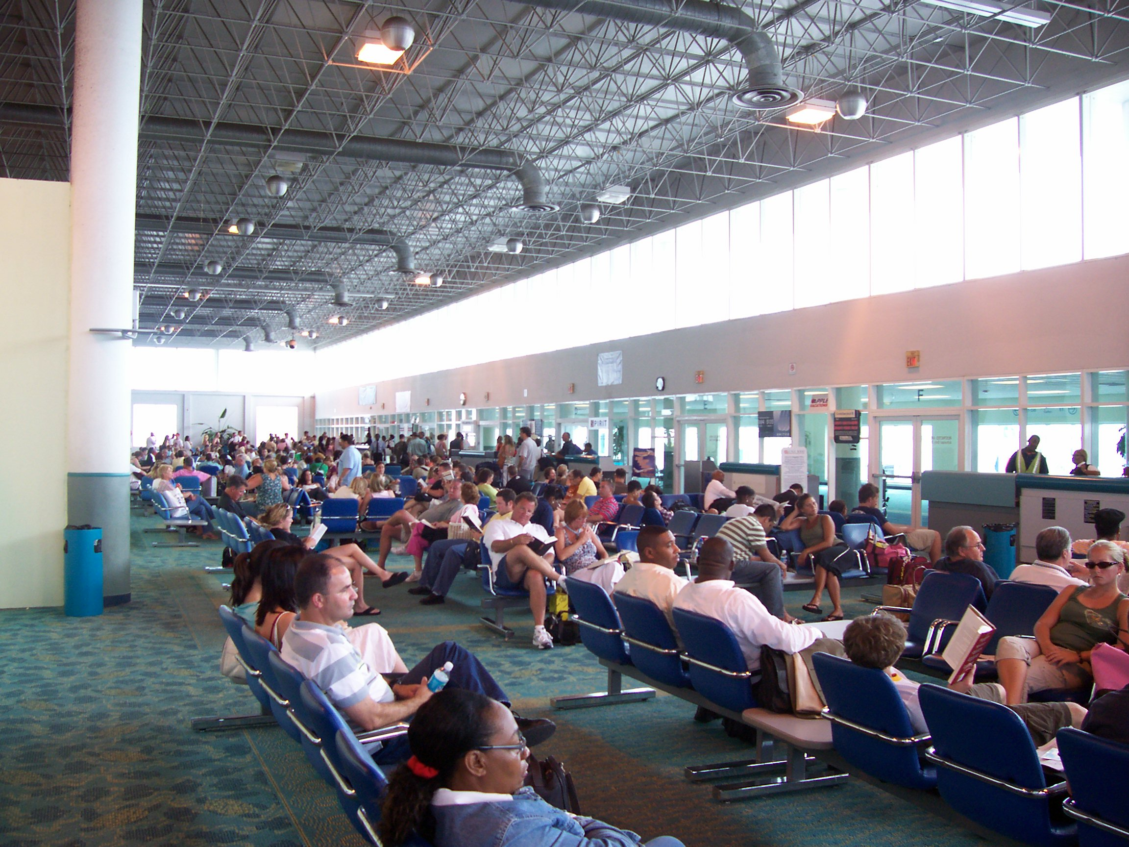 The U.S. departures terminal at Nassau International Airport (I took this photo)